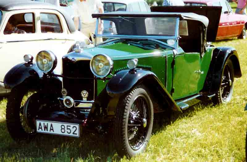 Riley Gamecock two-Seater 1932, chassis no 6016324